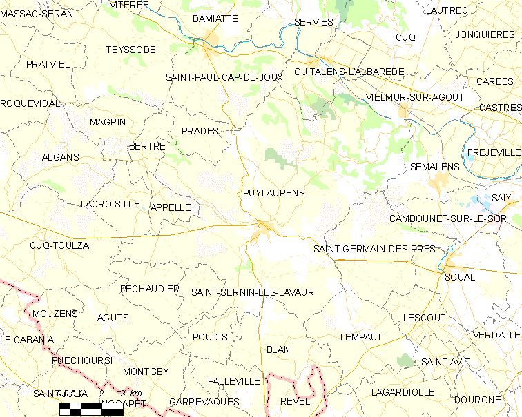 Map of French municipality Puylaurens